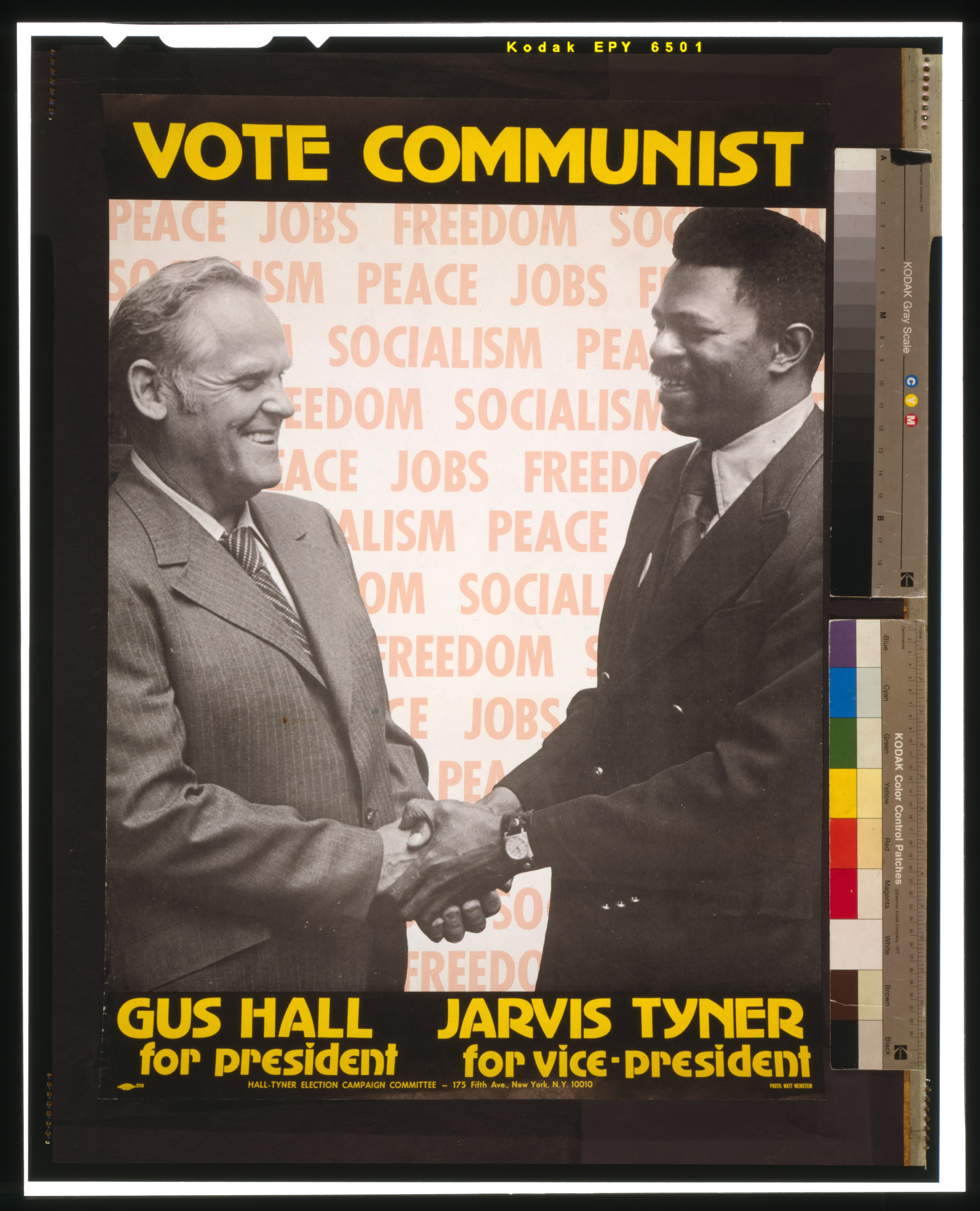 Title: Vote Communist : Gus Hall for President, Jarvis Tyner for Vice-President Abstract: 1 print ; (poster format)